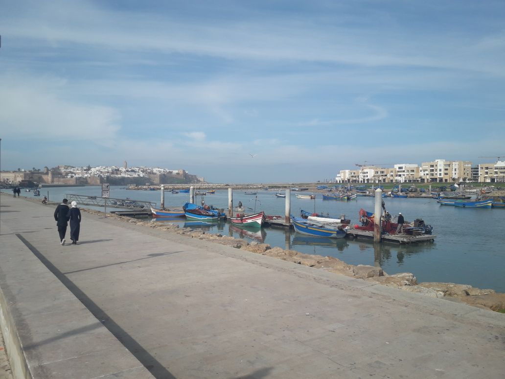 The Bou Regreg (Arabic: أبو رقراق) is a river located in western Morocco which discharges to the Atlantic Ocean between the cities of Rabat and Salé. This is an image with the theme "Play" from: Morocco